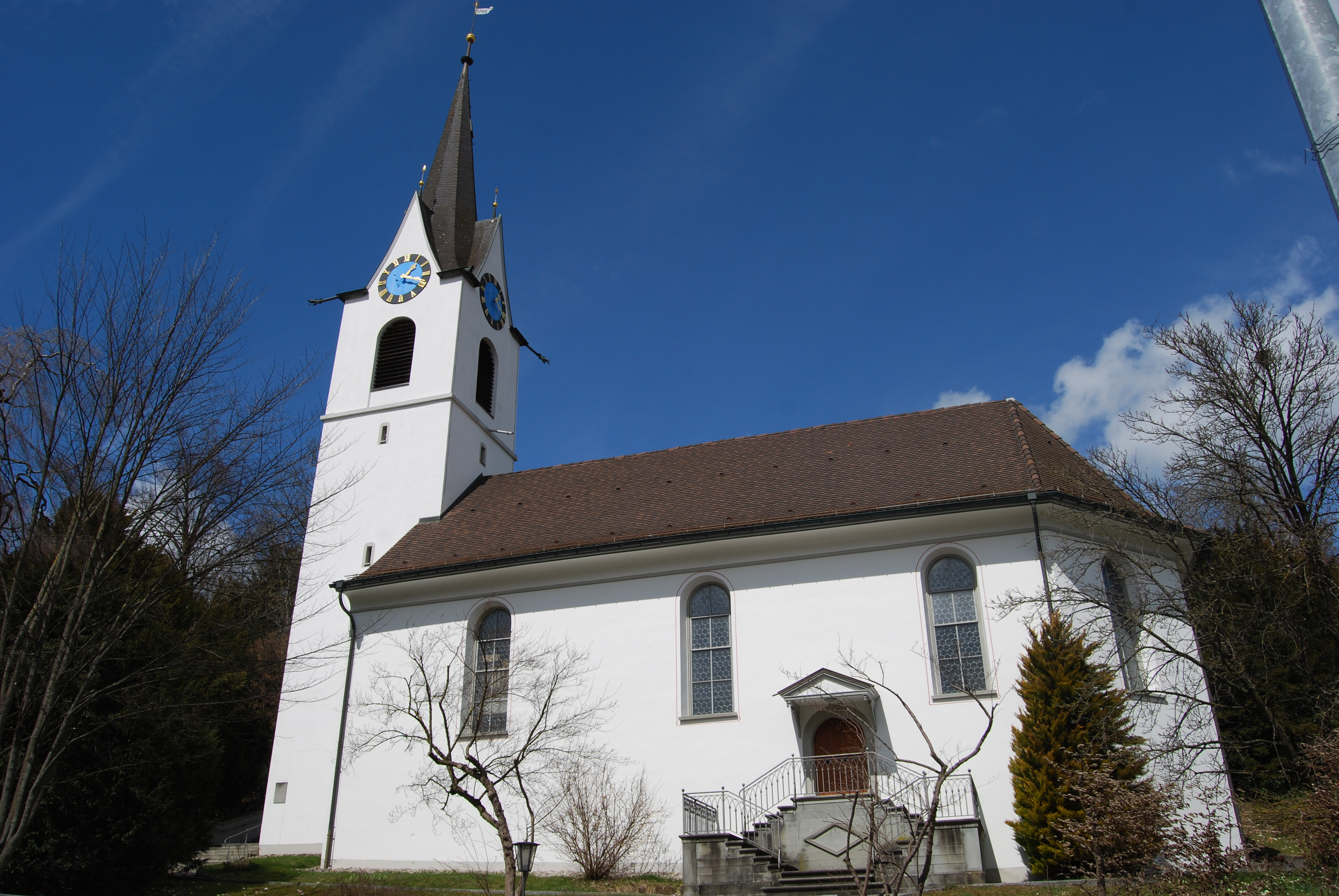 Protestant church of Oberuzwil, canton of St. Gallen, Switzerland